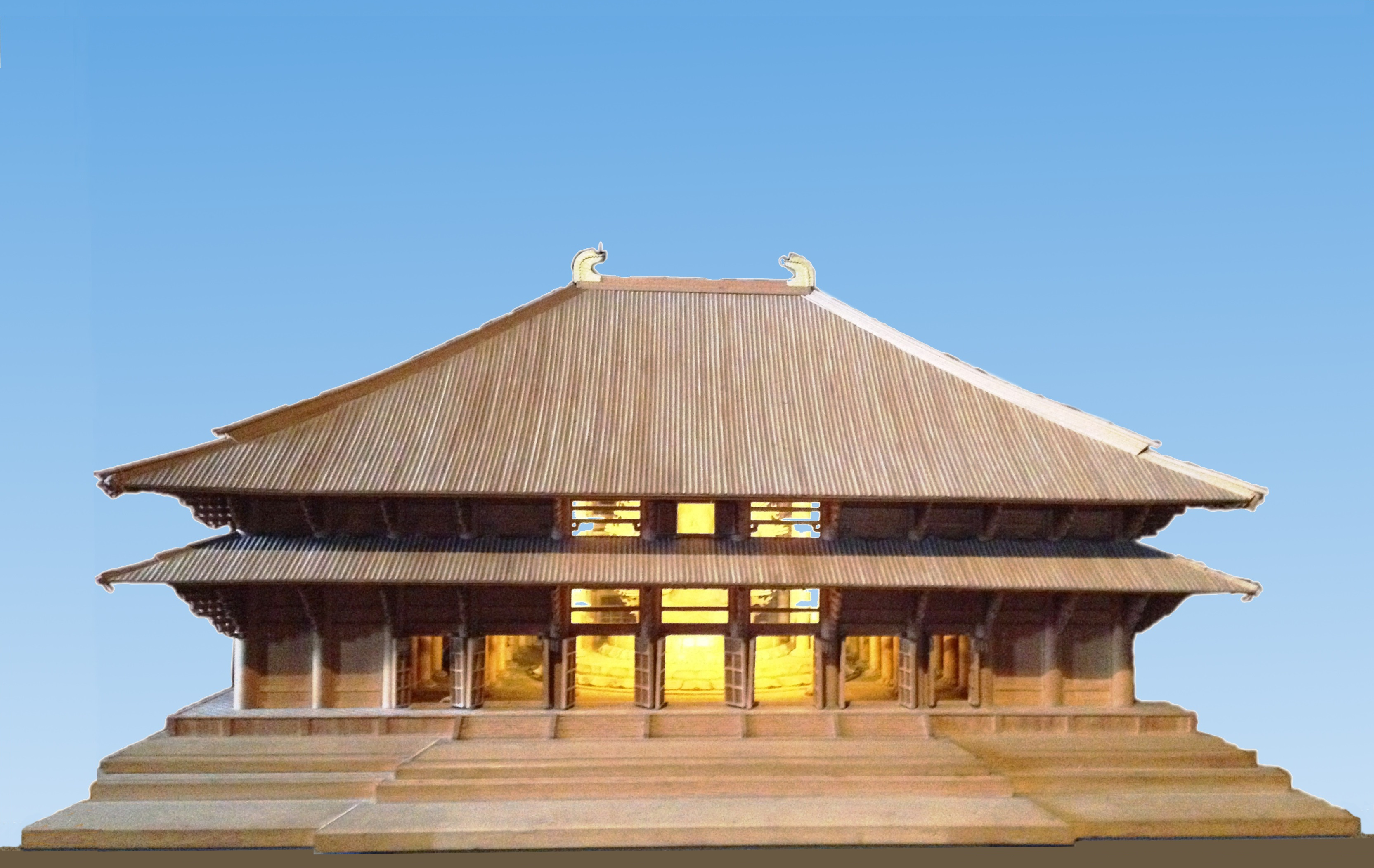 Miniature model of the Tōdai-ji in Nara, during the time of its construction. Miniature models are part of the permanent exhibition in the main hall of the temple.